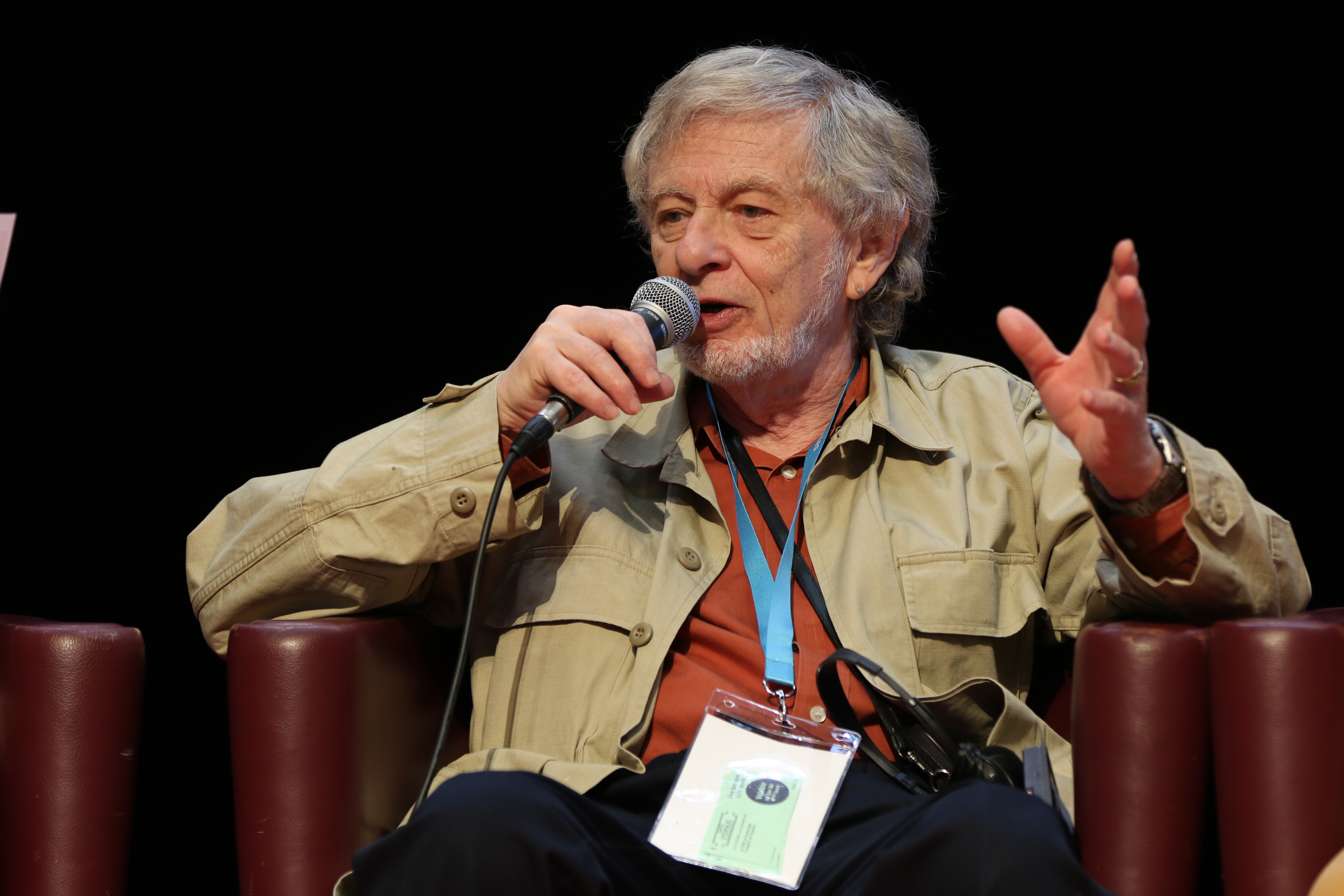 photograph taken at the 2015 edition of the "Utopiales" of Nantes.